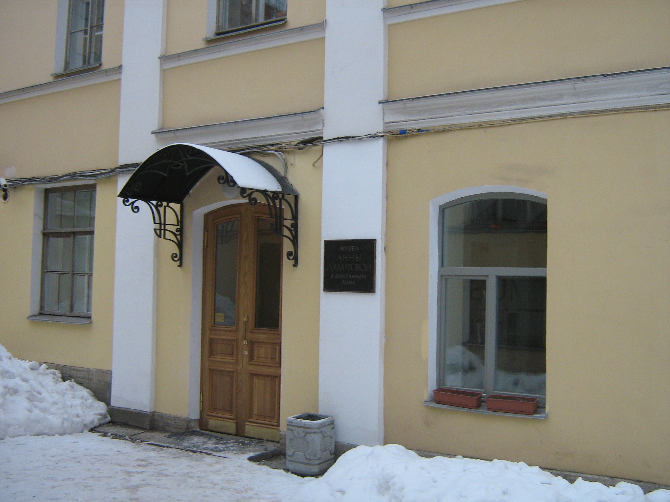 Saint Petersburg (Russia), Liteyny Avenue